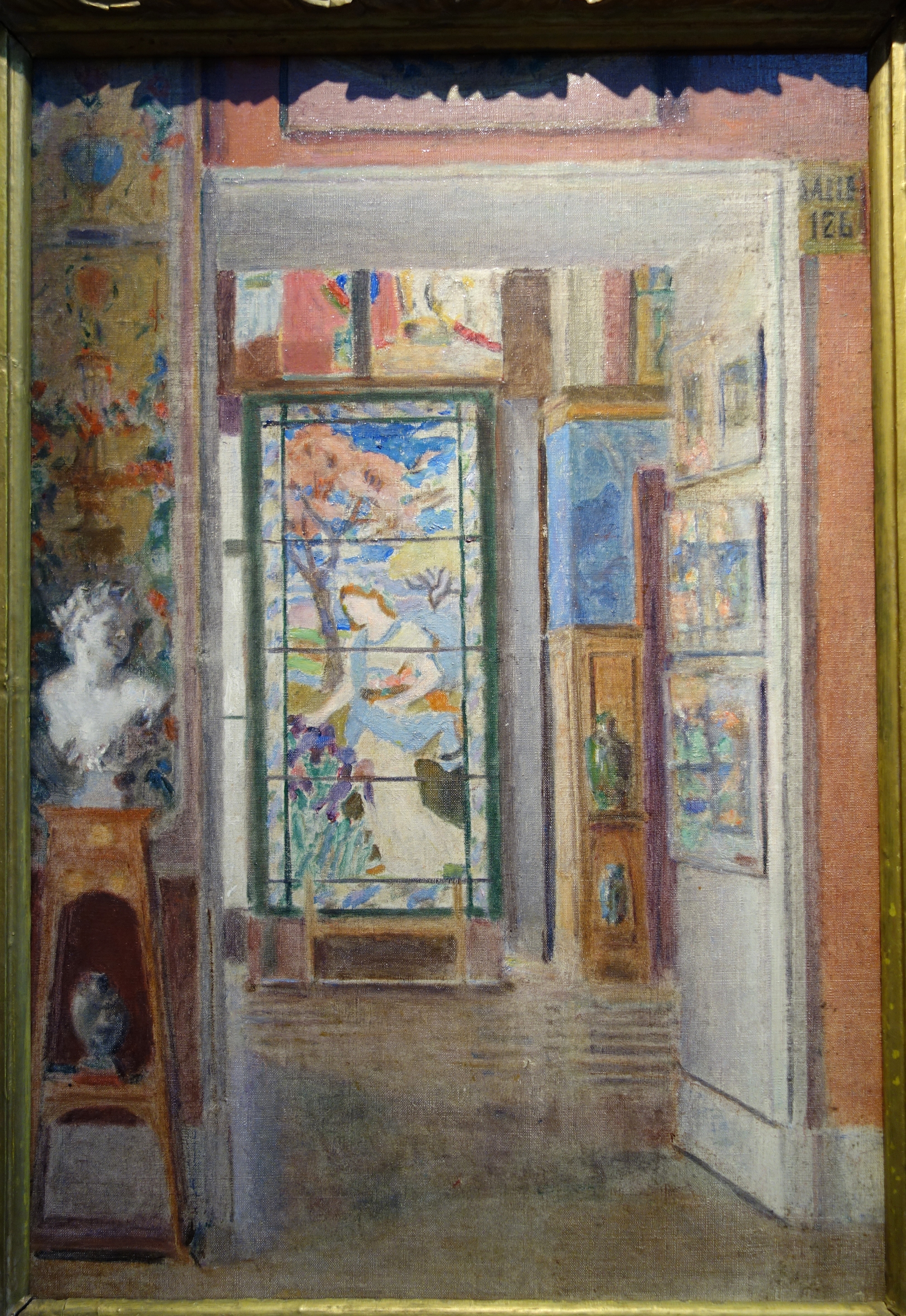 Exhibit in the Fitchburg Art Museum, Fitchburg, Massachusetts, USA. This artwork, also known as Carpeaux Sevres, is in the public domain because the artist died more than 70 years ago.